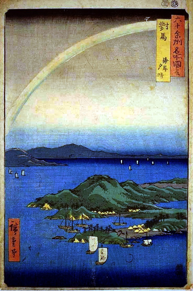 Tsusima Kaigan Yūbare of the Famous Scenes of the Sixty States.